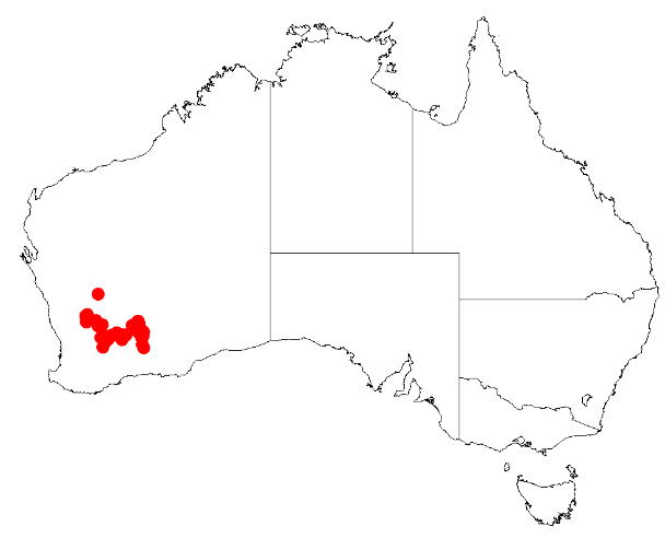 Acacia consanguinea Occurrence data from Australasia Virtual Herbarium downloaded from on 8 December 2018